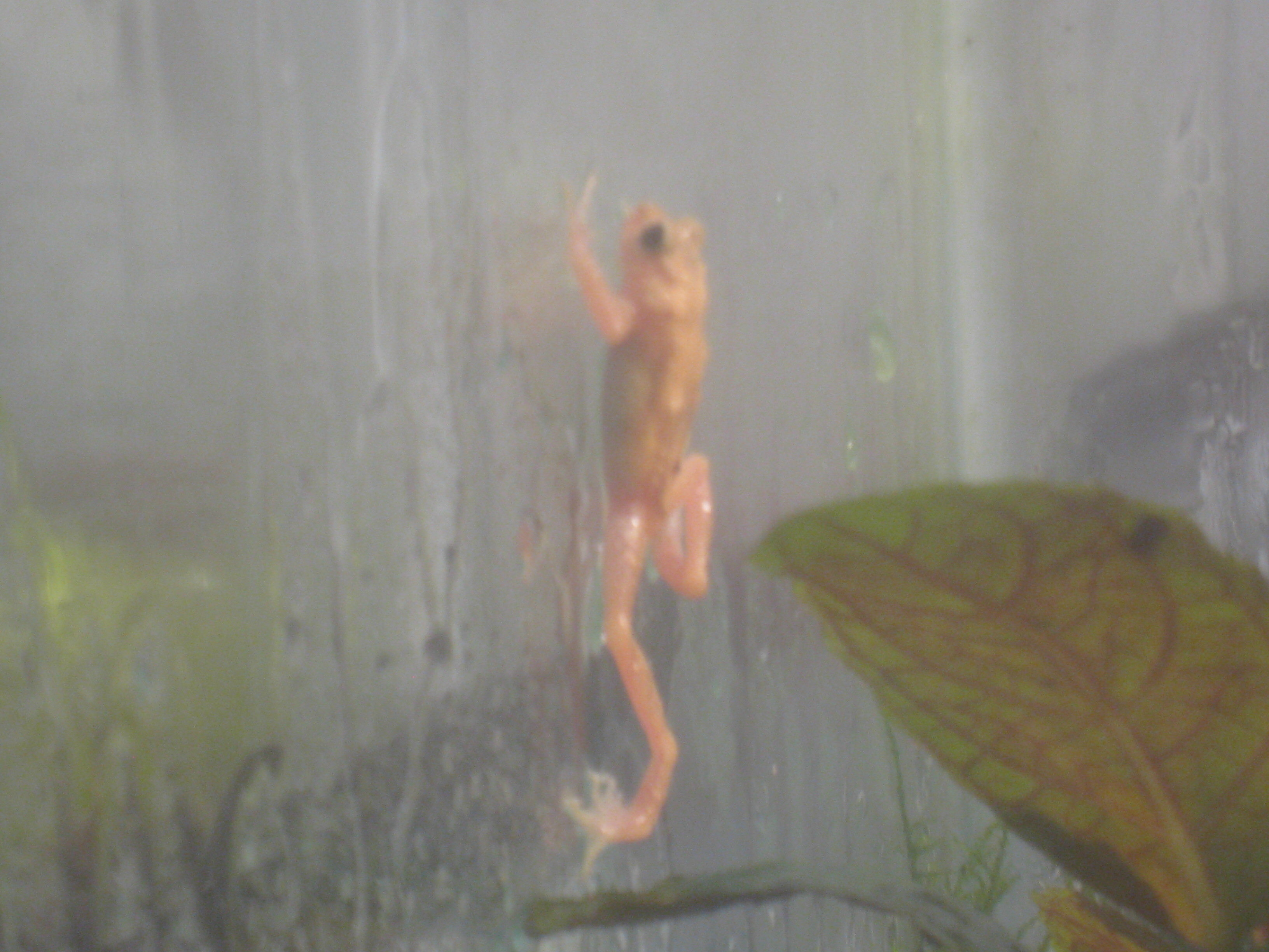 Photo of the Critically Endangered Kihansi Spray Toad (Nectophrynoides asperginis), taken at the Toledo Zoo.